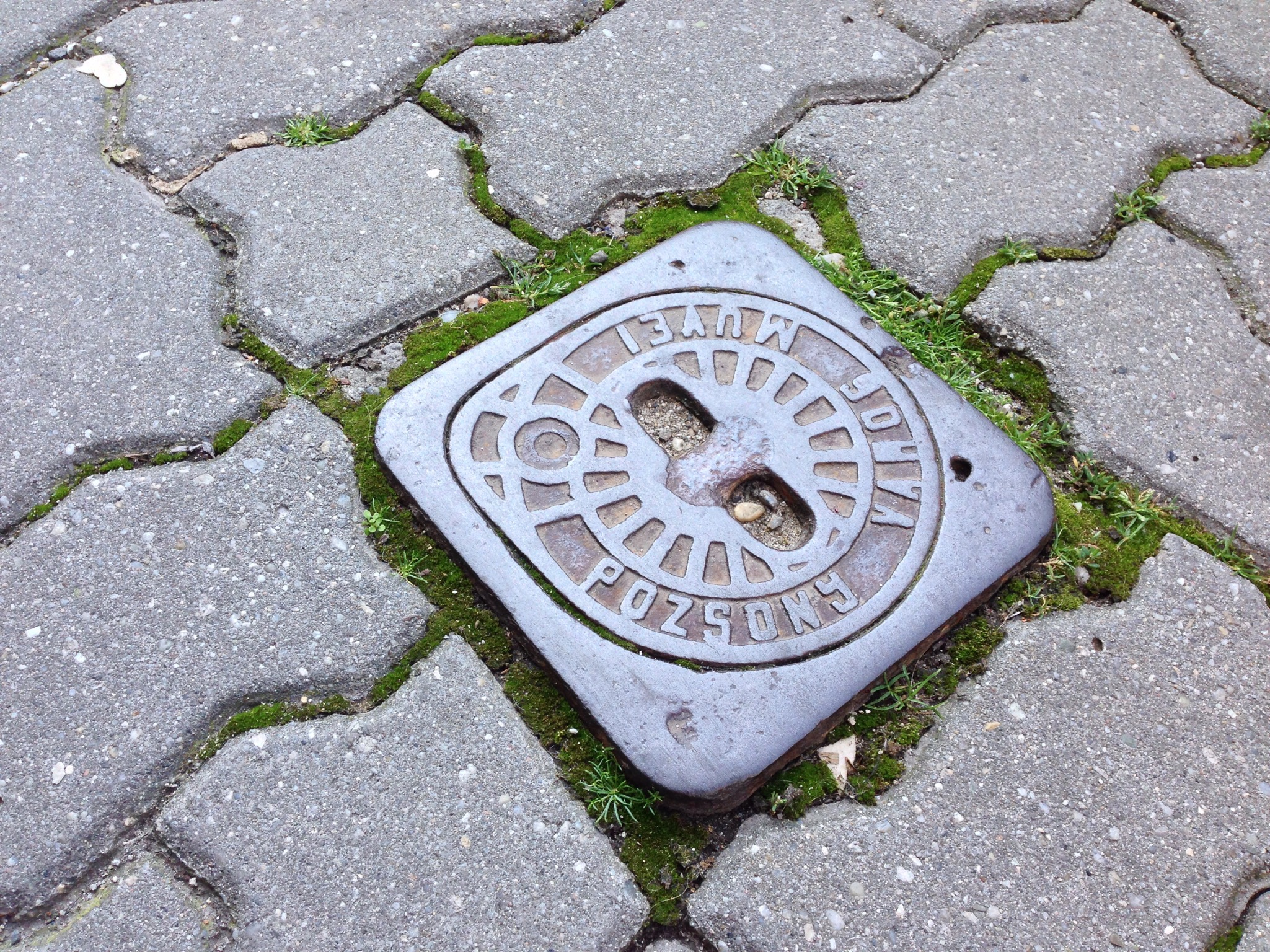 Bratislava, manhole cover, pre-war model with Hungarian inscription (Pozsony város művei), Jakubovo námestie